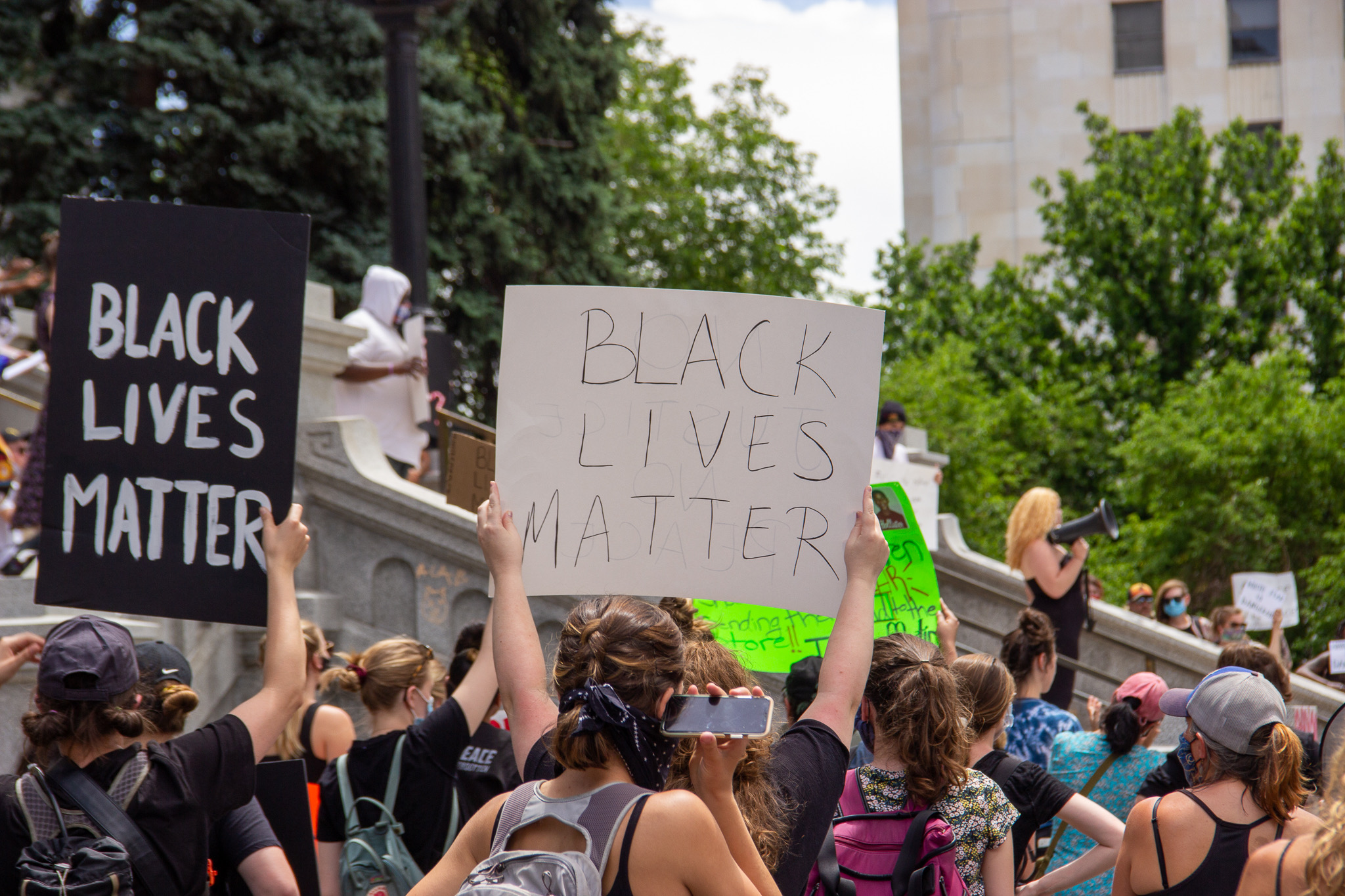 Protest